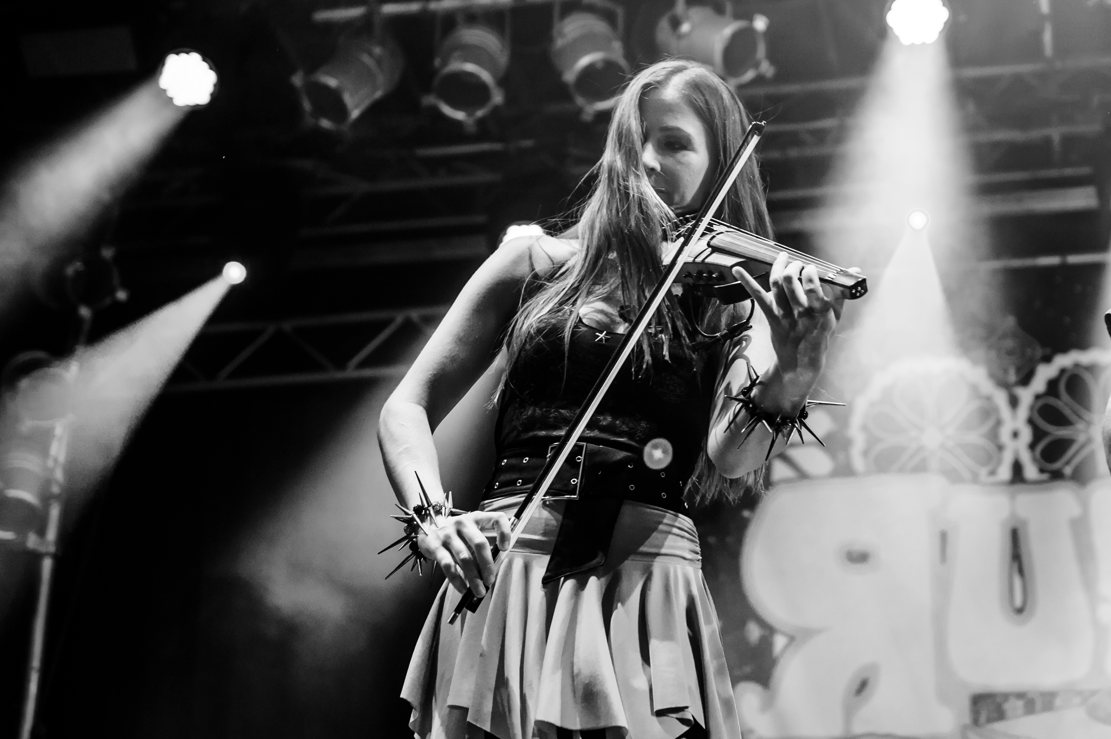 Russkaja; Burgfolk Festival 2016